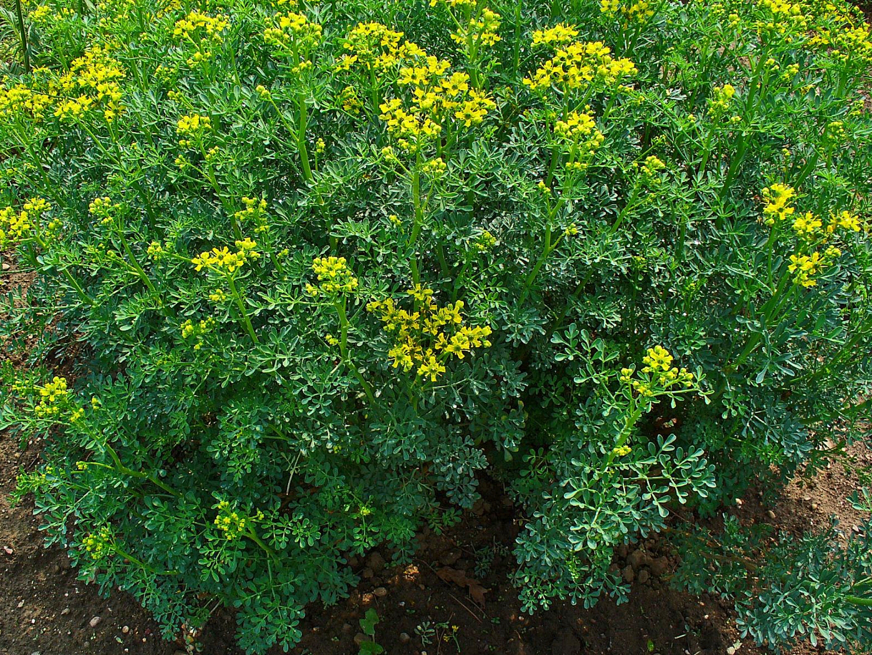 Ruta graveolens, Rutaceae, Common Rue, Herb-of-grace, habitus. Botanical Garden KIT, Karlsruhe, Germany.